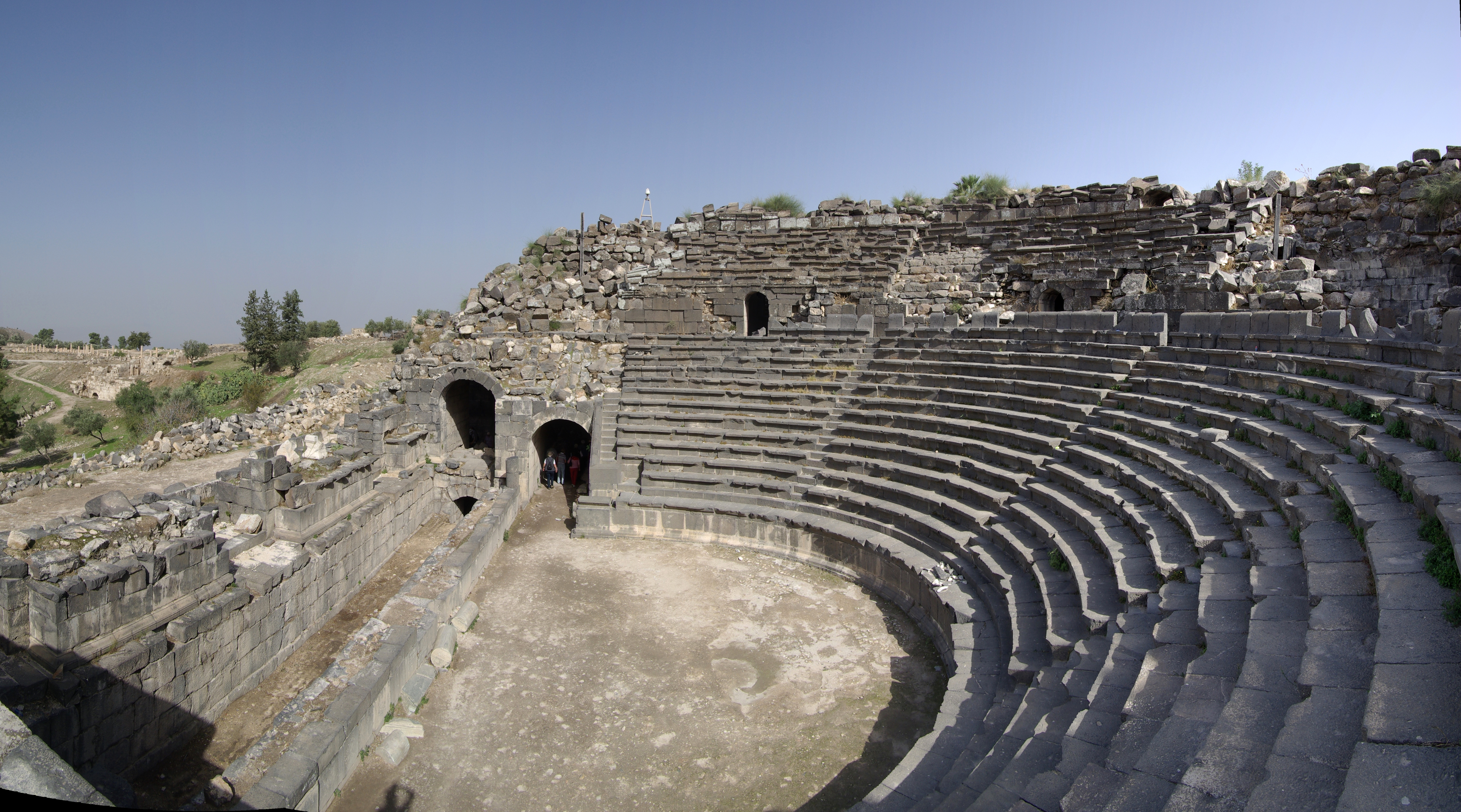 Umm Qais/Gadara, the western theater